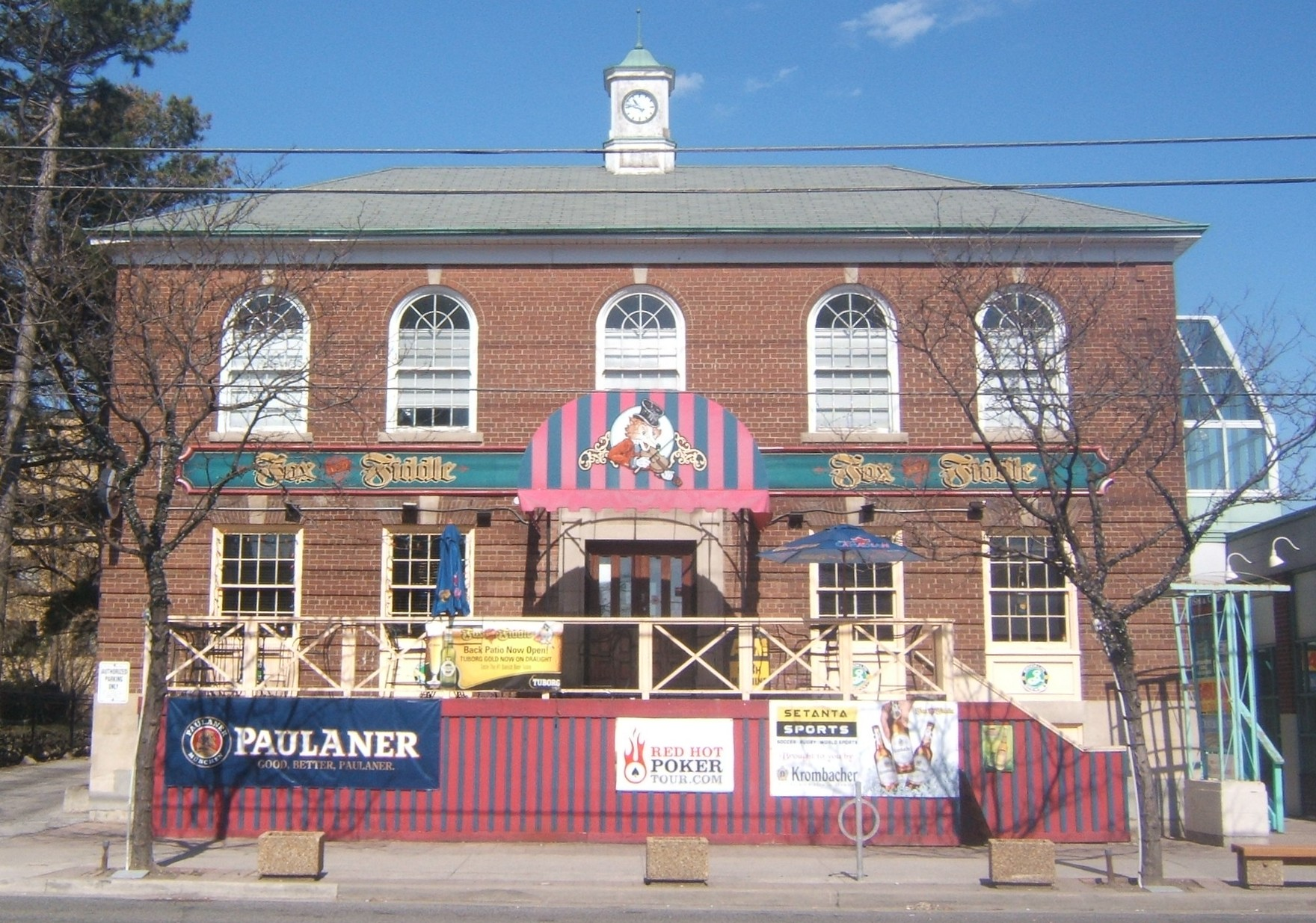 Former Township of Etobicoke Council Offices on Dundas Street at Islington, now a pub. North side of Dundas Street West, west of Cordova Avenue. Toronto, Ontario, Canada.